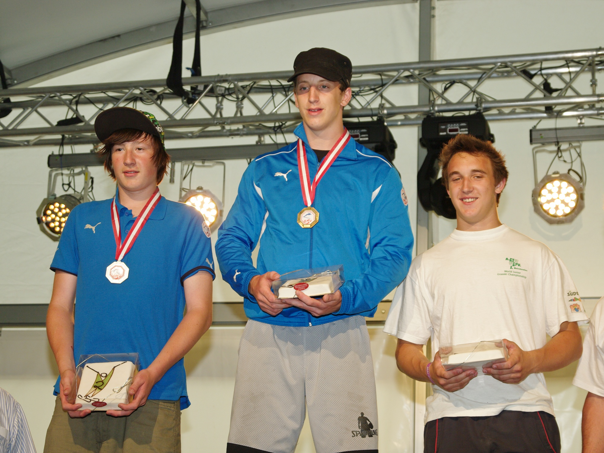 Austrian Grasski Championships 2010 in Rettenbach: Medal ceremony Juniors Combined: 1st place and Austrian Junior Champion: Daniel Gschwandtner (middle), 2nd place: Hannes Angerer (left), 3rd place: Nico Balek (right)